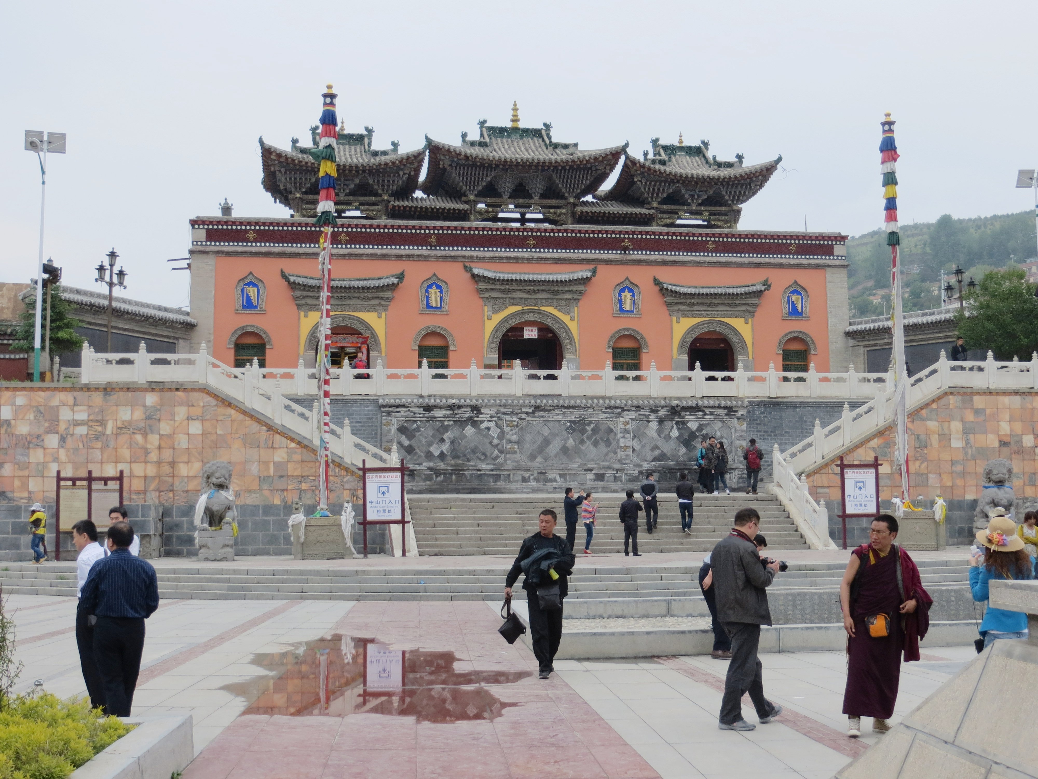 The Zhongshanmen (central gate), in kumbum Monastery (Ta'er si).